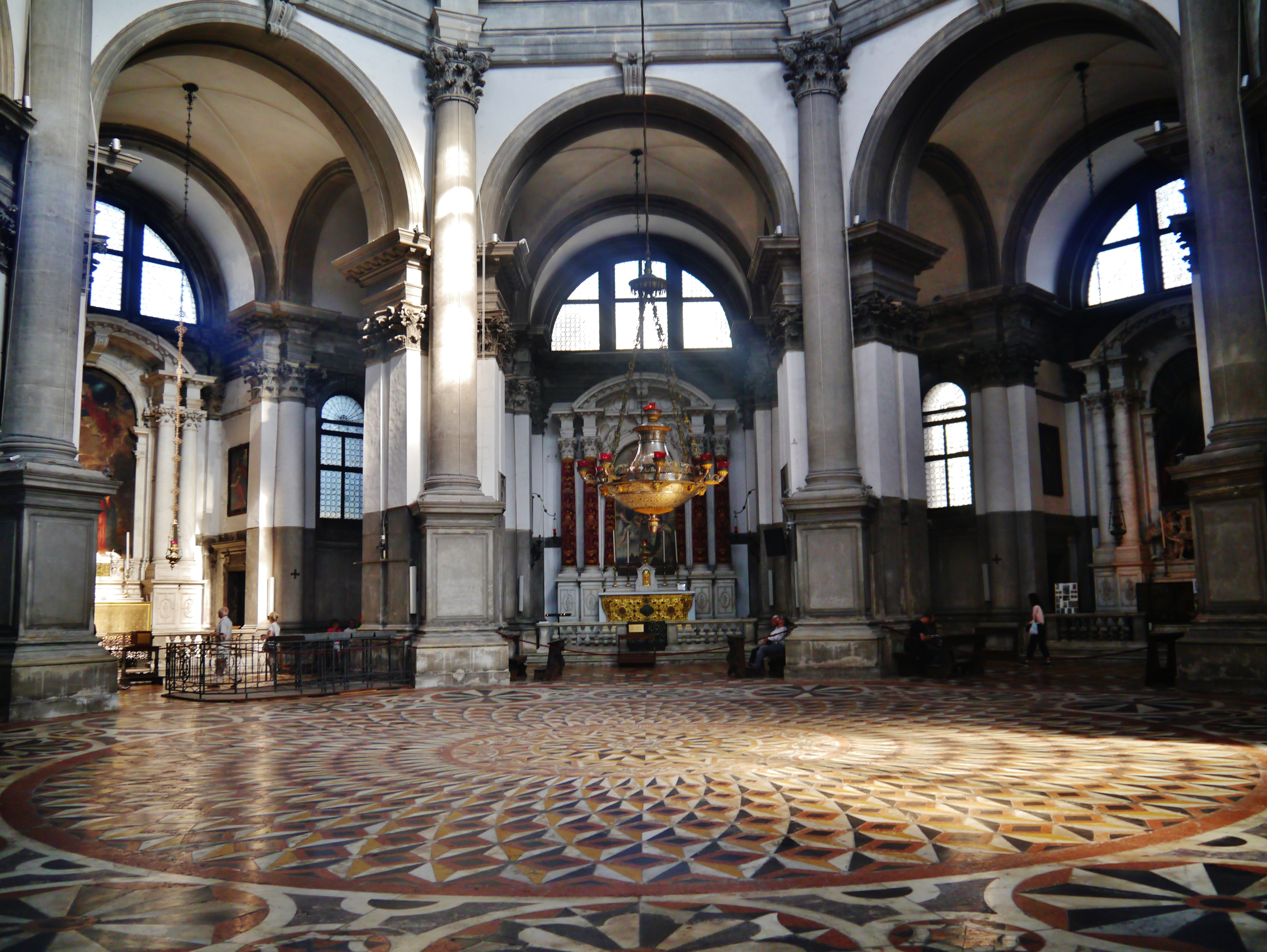 Interior of the Basilica of St. Mary of Health, Venice, Metropolitan City of Health, Region of Veneto, Italy